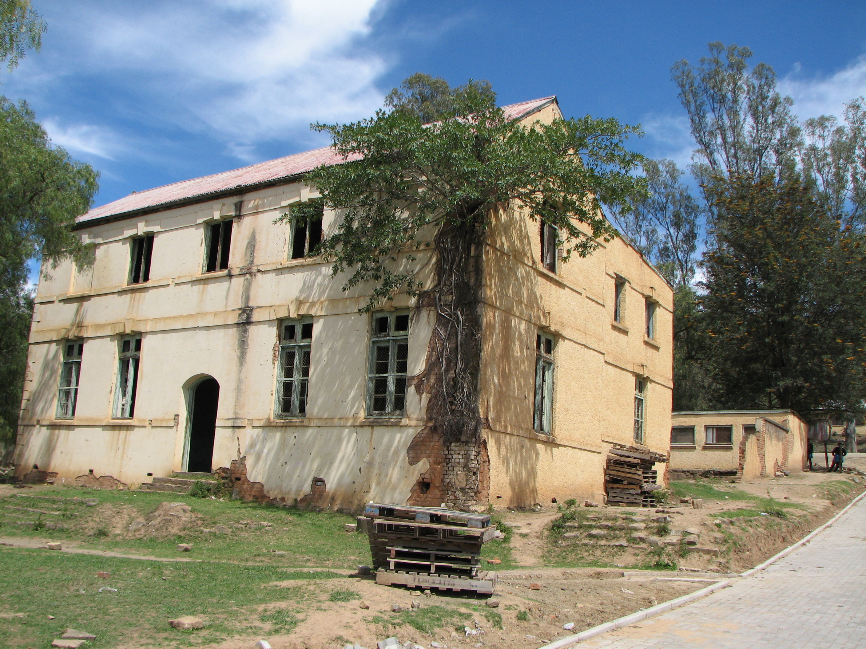 St matthews Mission station just outside Keiskammahoek, in the Eastern Cape. The old school buildings have become dilapidated to such an extent that there are trees growing in the walls.